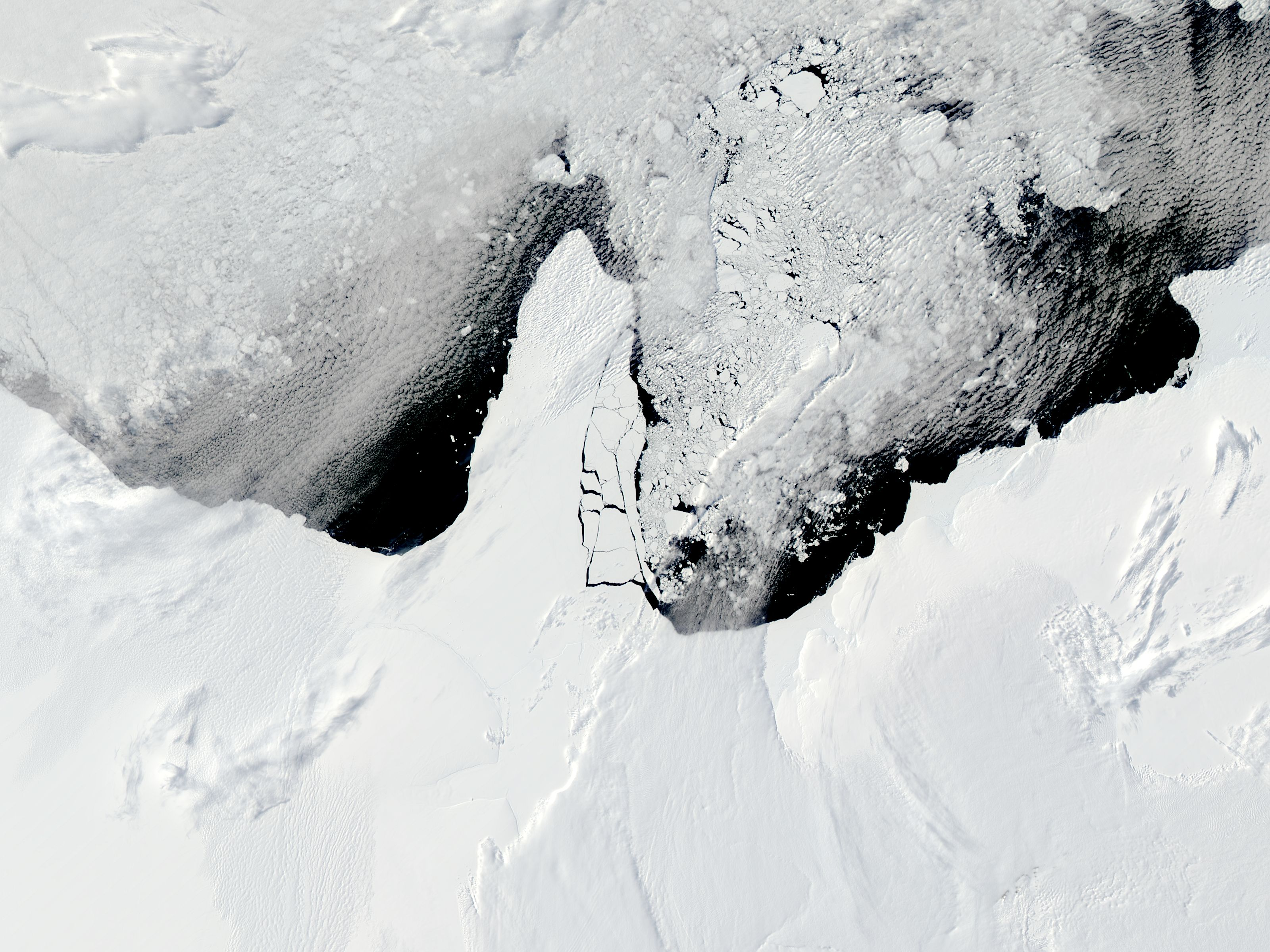 Within a 24-hour space, an area of sea ice larger than the state of Rhode Island broke away from the Ronne-Filchner Ice Shelf and shattered into many smaller pieces. The Moderate Resolution Imaging Spectroradiometer (MODIS) on NASA’s Aqua and Terra satellites captured this event in this series of photo-like images from January 12 and January 13, 2010. The long, narrow tongue of ice is a bridge of sea ice linking the A-23A iceberg to the Ronne-Filchner Ice Shelf in West Antarctica. The ice bridge is fast ice, or sea ice that does not move because it is anchored to the shore. Compared to an ice shelf, the sea ice is a thin shell of ice over the ocean. The difference in thickness is visible in the images. The taller, thicker Ronne-Filchner Ice Shelf casts a visible shadow on the ice bridge made of sea ice. This particular ice bridge breaks up and reforms regularly. Even though the images show a routine event, they provide a spectacular view of the sometimes dramatic arrival of summer in the Polar South. January 13, afternoon image